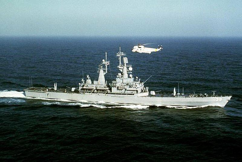 USS Texas (CGN-39)